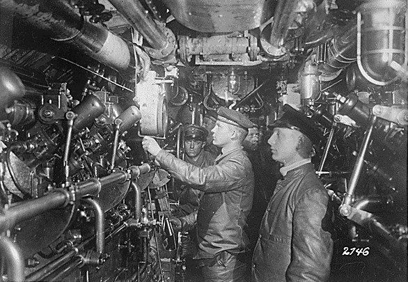 View of an engine room of a German gasoline-powered submarine, which would be any boat from U 1 to U 18.